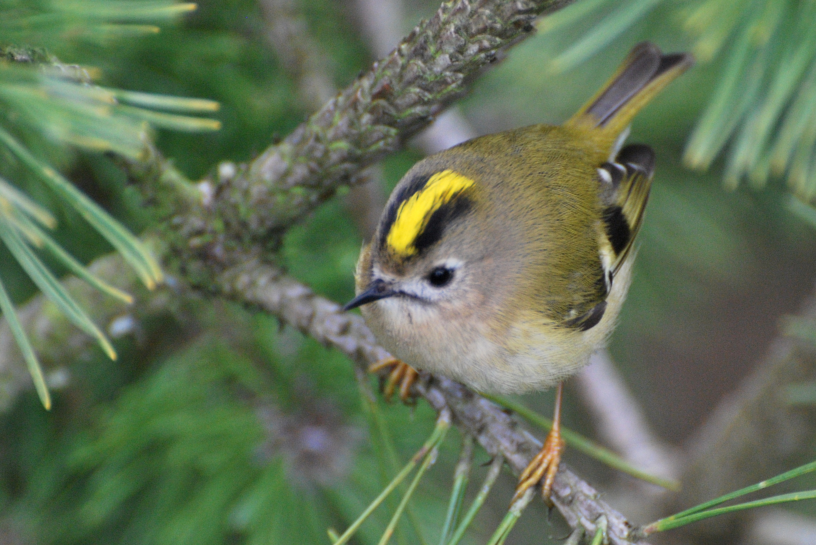 A Goldcrest in the grounds of Marwell Wildlife (previously called Marwell Zoo), Hampshire, England.